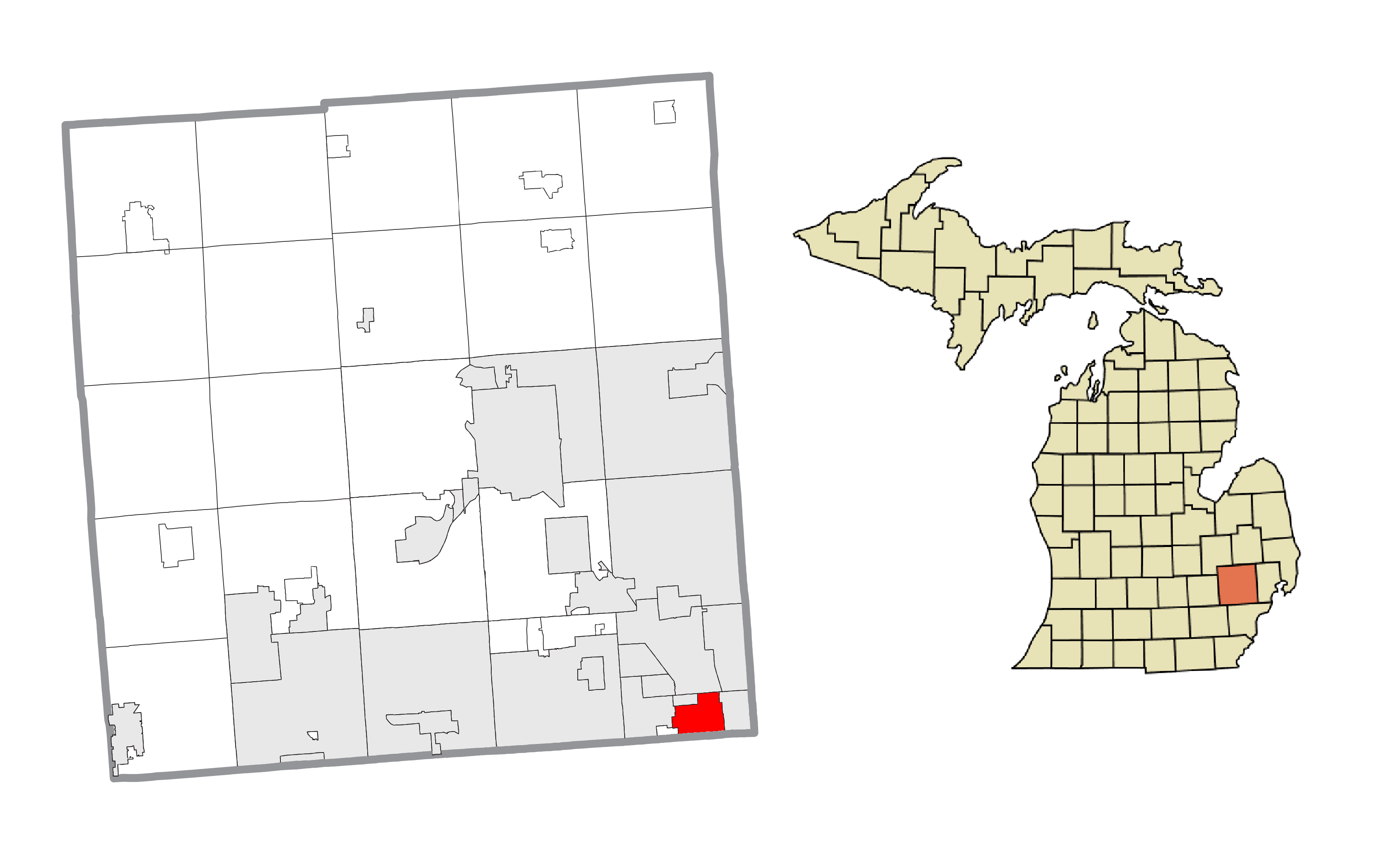 Ferndale, MI